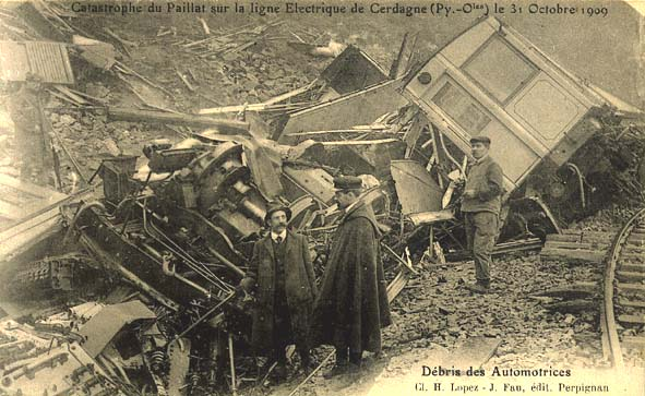 Old postcard showing two crashed locomotives by the Pont Gisclard, in Sauto (France). In the accident died six people, and nine more were injured.